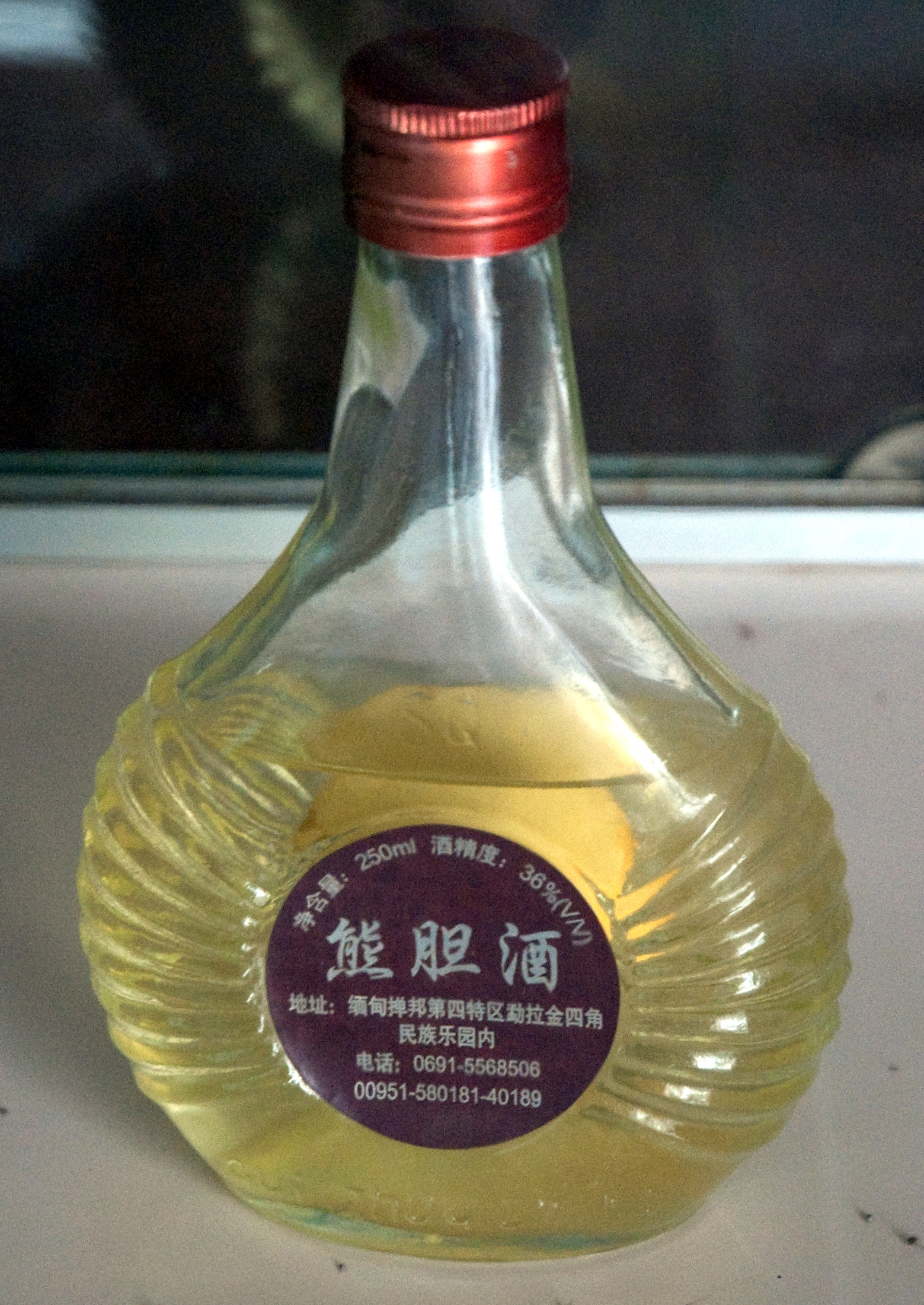 Product of Sun Bear Bile Extraction Operation in Möng La, Shan, Myanmar